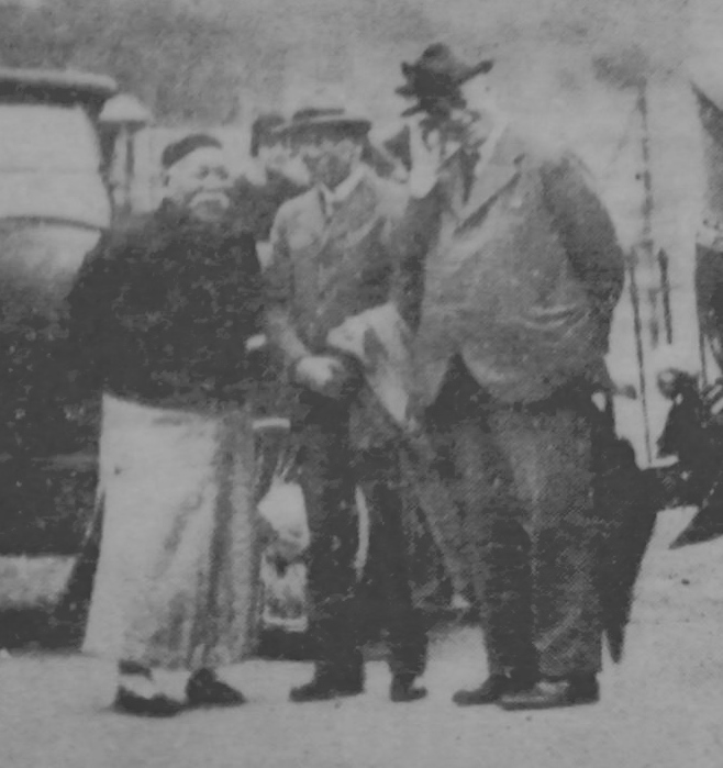 Shouson Chow, Justice John Wood and Chief Justice Henry Gollan of Hong Kong at the funeral of H.P. White